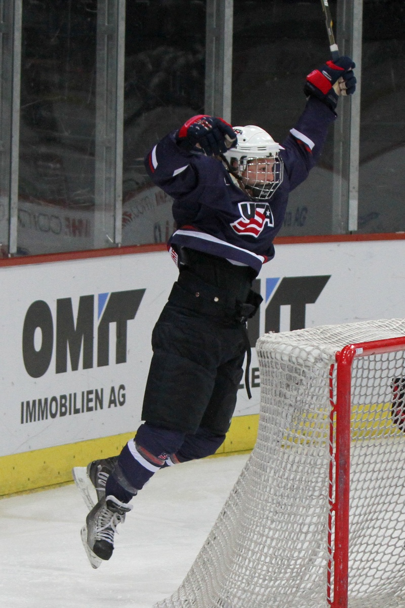 IIHF World Women Championship 2011. Gold Medal Game USA - Canada 3-2 OT.